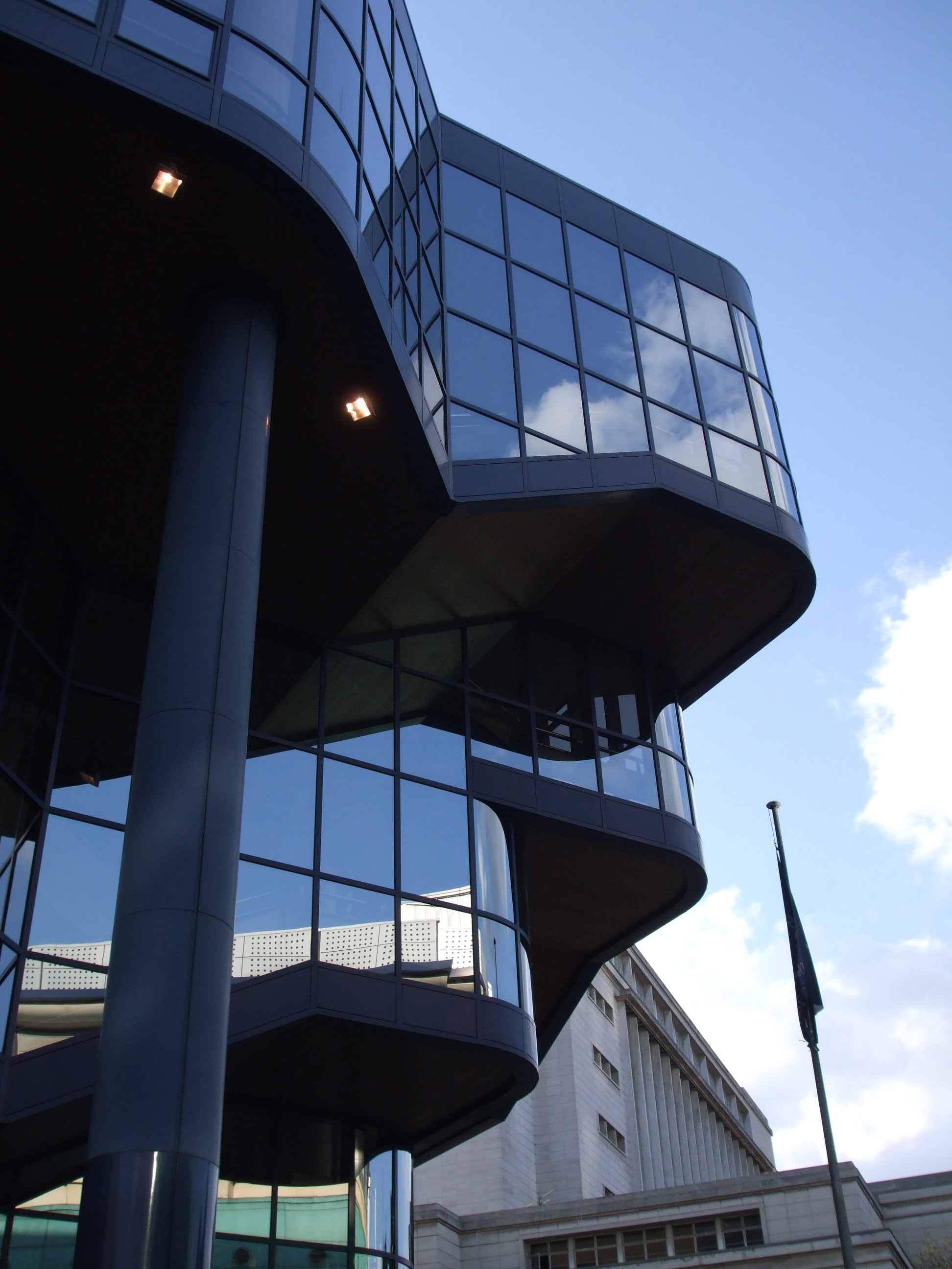 exterior close-up, Royal Concert Hall, Nottingham